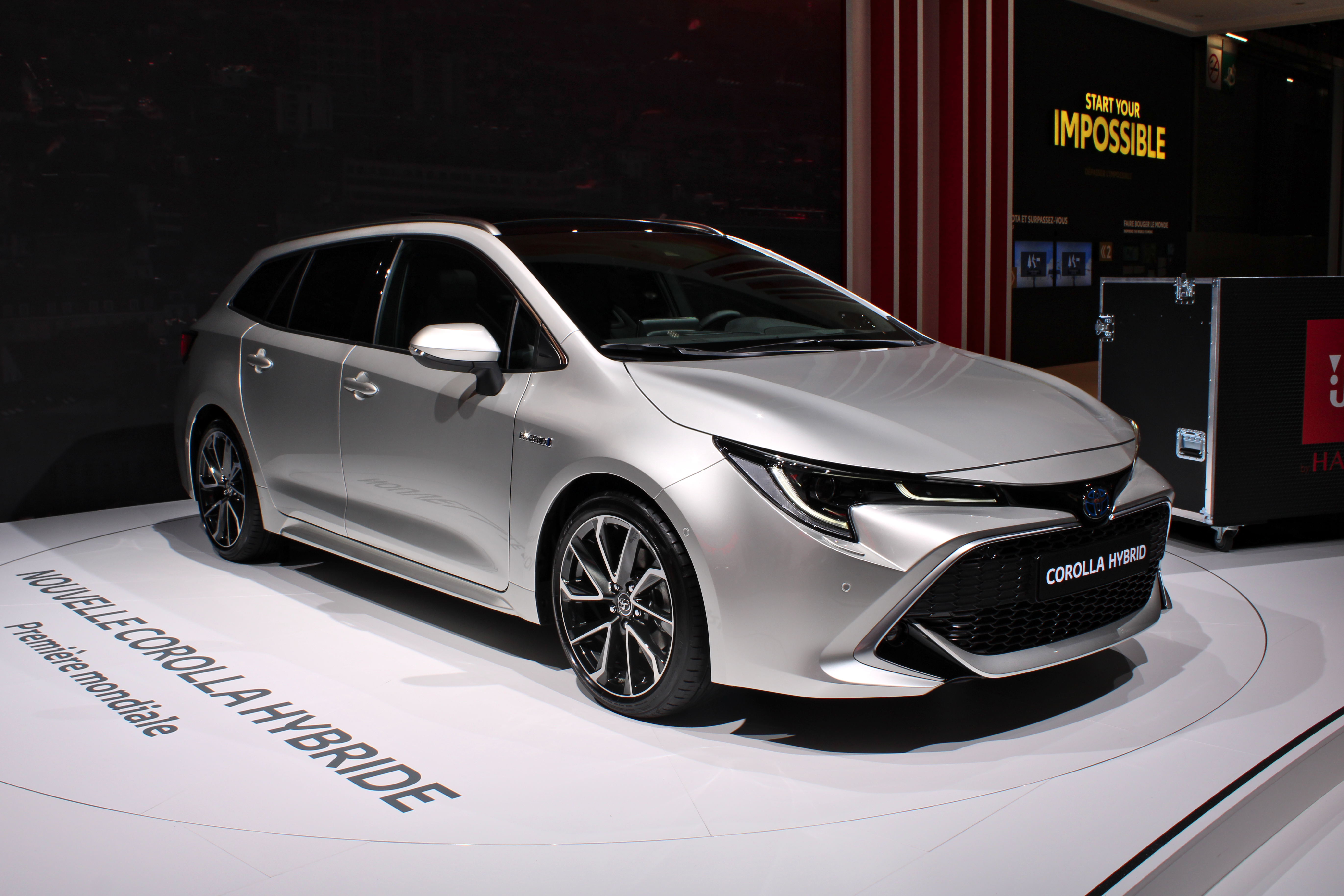 Toyota Corolla Hybrid at Paris Motor Show 2018